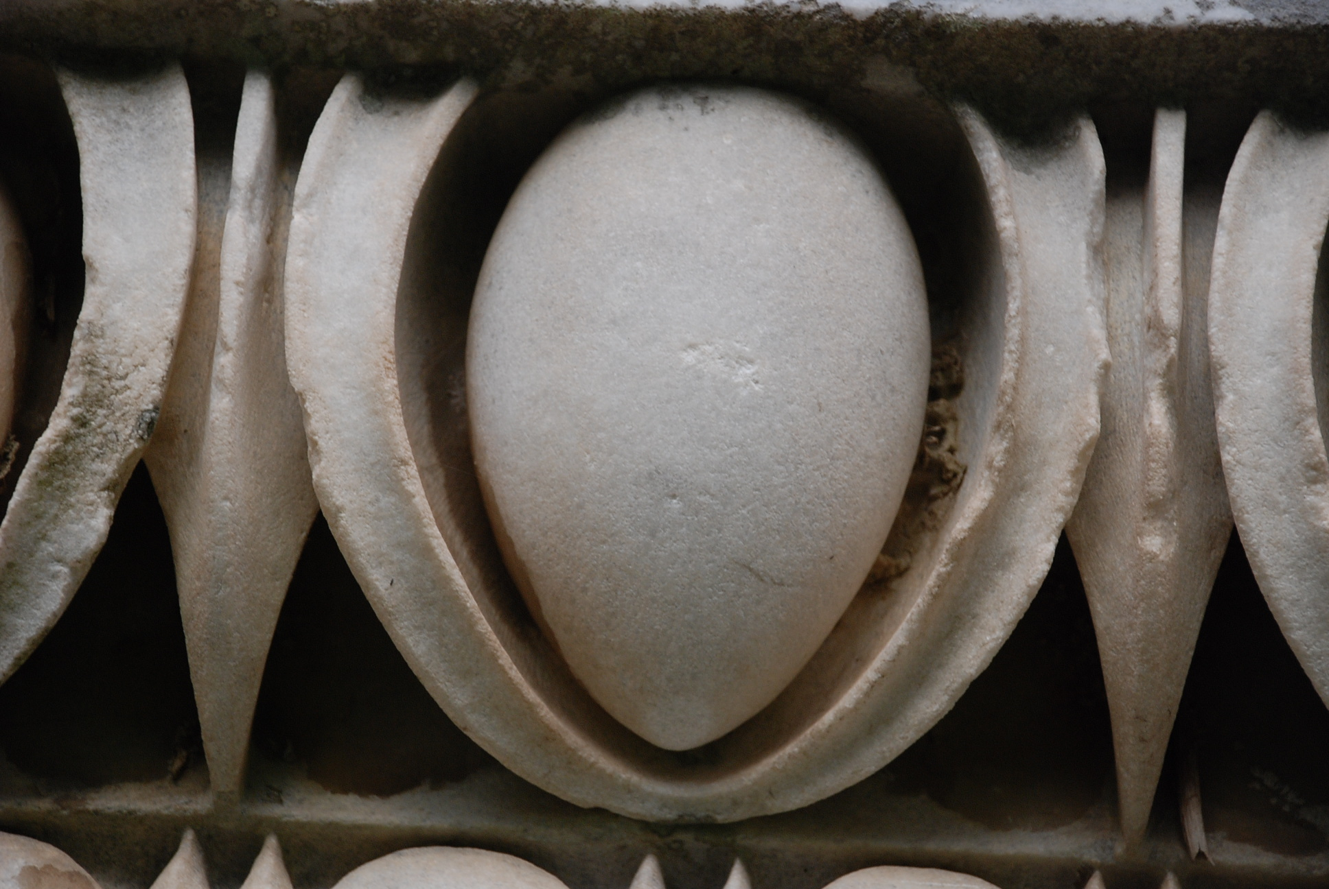 Ostia antica (archaeological site)